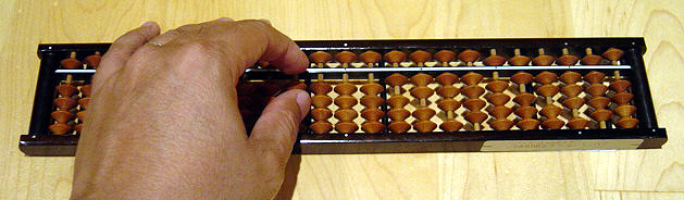 A Japanese soroban. The rightmost 10 columns are showing the number 1234567890.